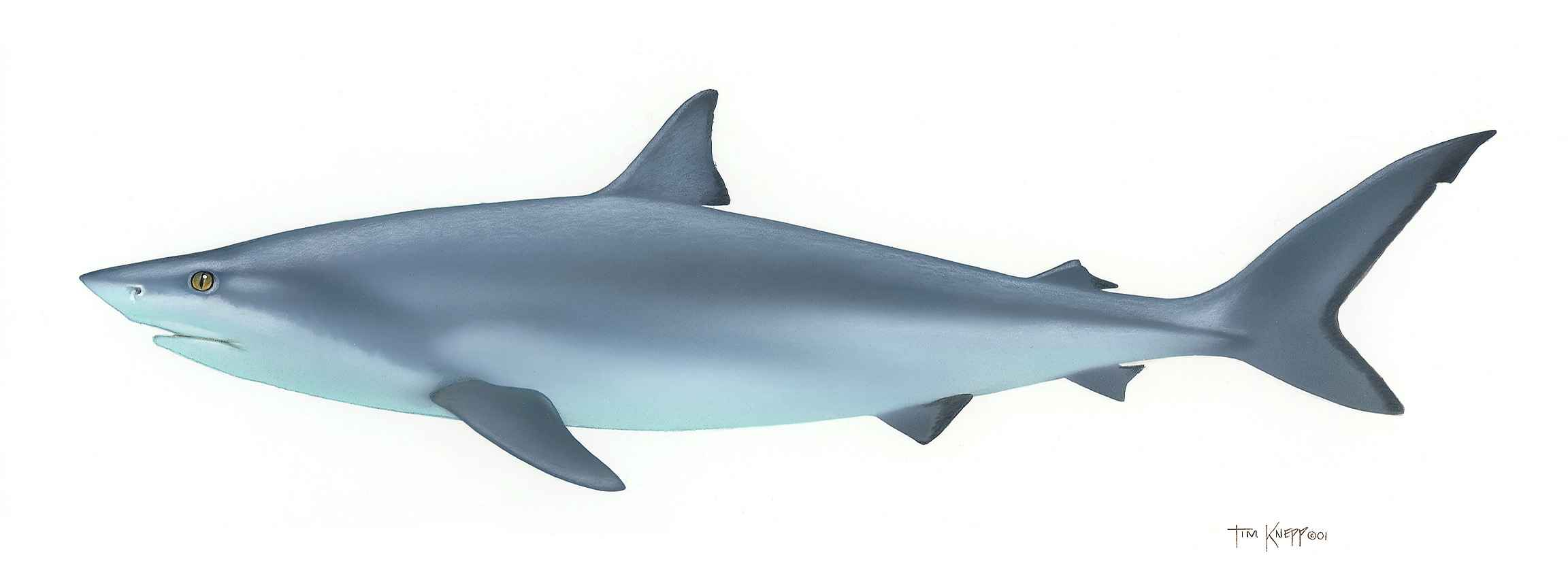 Image title: Carcharhinus leucas Image from Public domain images website